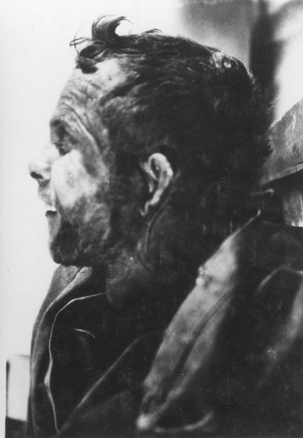 Royal Canadian Mounted Police photo issued in a series of Albert Johnson